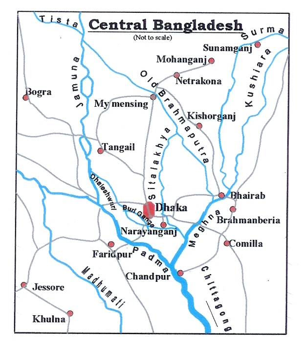 Own map